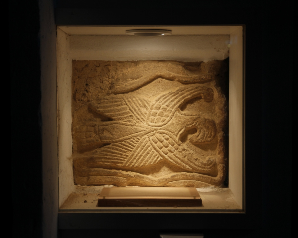 Saxon relief of the eagle of St John the Evangelist, set inside the south doorway of All Saints' parish church, Brixworth, Northamptonshire